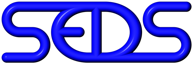 Logo of Students for the Exploration and Development of Space (SEDS).